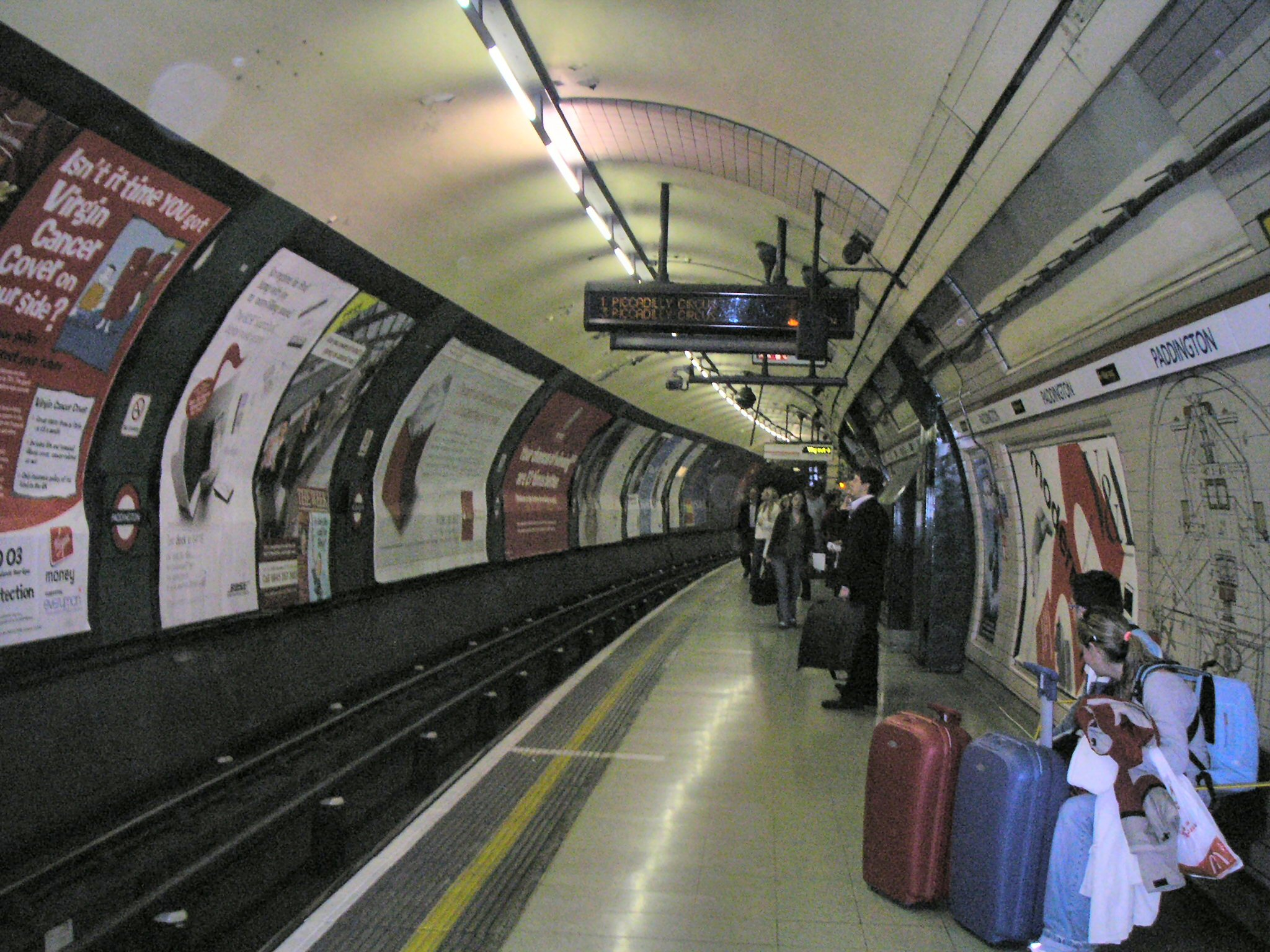 The southbound Bakerloo Line platform of Paddington Station.